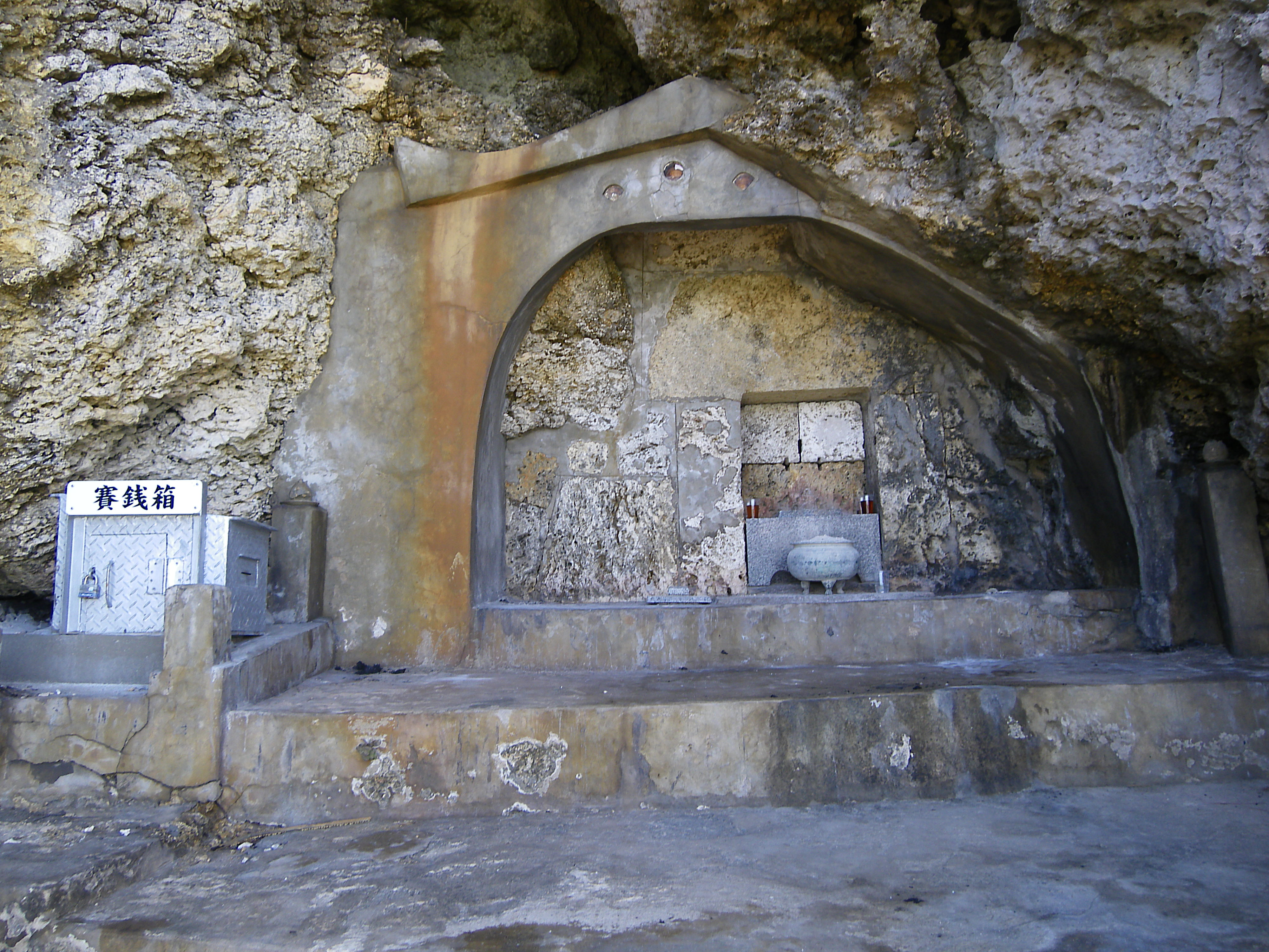 The tomb of Amamichu